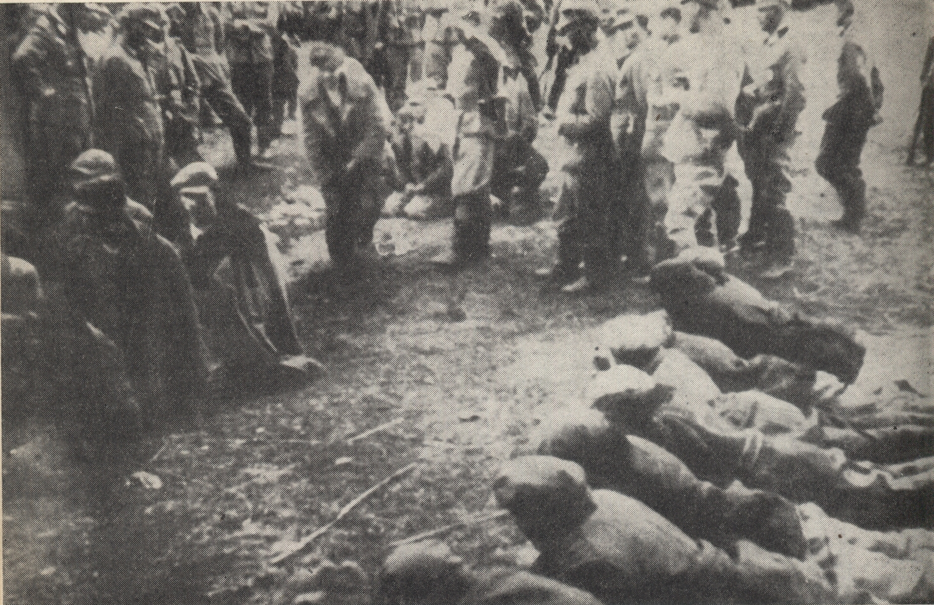 Preparation for the execution of Polish partisants who were took prisoner by German troops after the battle of Osuchy (Biłgoraj county). 25th June 1944